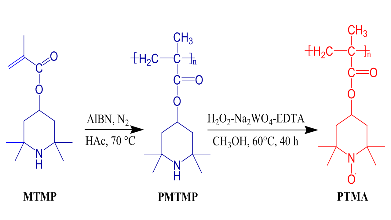 Figure 4 for Chem 171